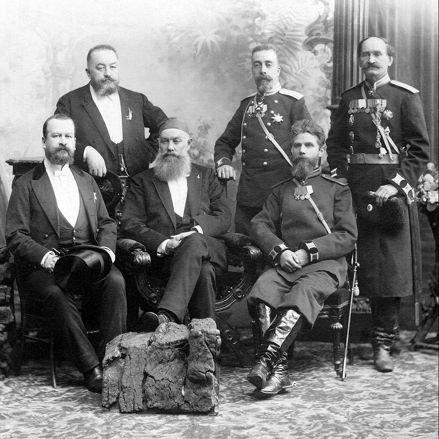 Vasily Vasilievich Dokuchaev in 1898-1899.